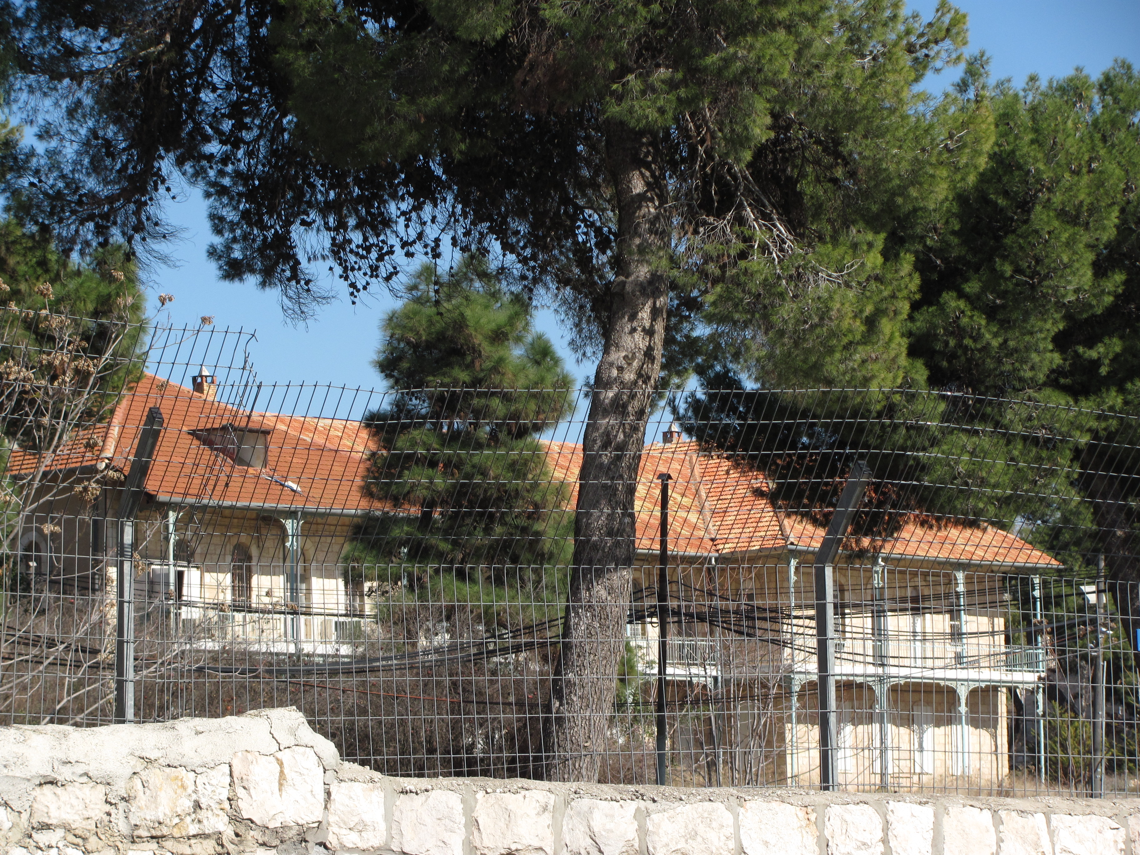 A Schneller Orphanage building behind a high stone wall capped with fencing.